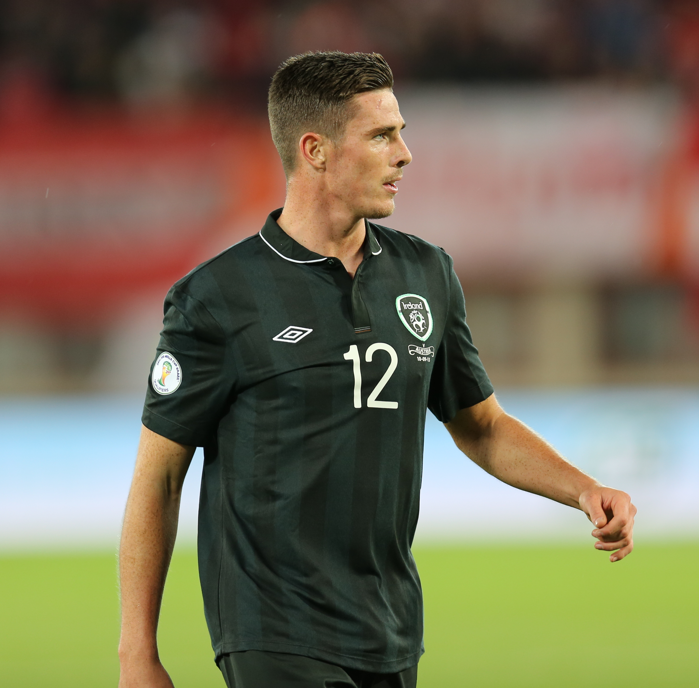 2014 FIFA World Cup qualification (UEFA), Group C: Republic of Ireland national football team at 10. September 2013 before the match against the Austria national football team (0:1) in the Ernst-Happel-Stadion in Vienna. Here:Ciaran Clark, Irish defender and midfielder. The making of this work was supported by Wikimedia Austria. For other files made with the support of Wikimedia Austria, please see the category Supported by Wikimedia Österreich.